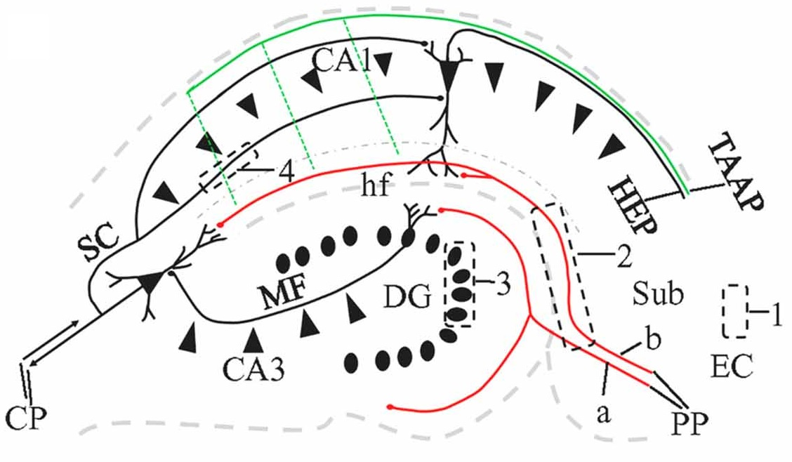 Hippocampal main structures and signalling pathways